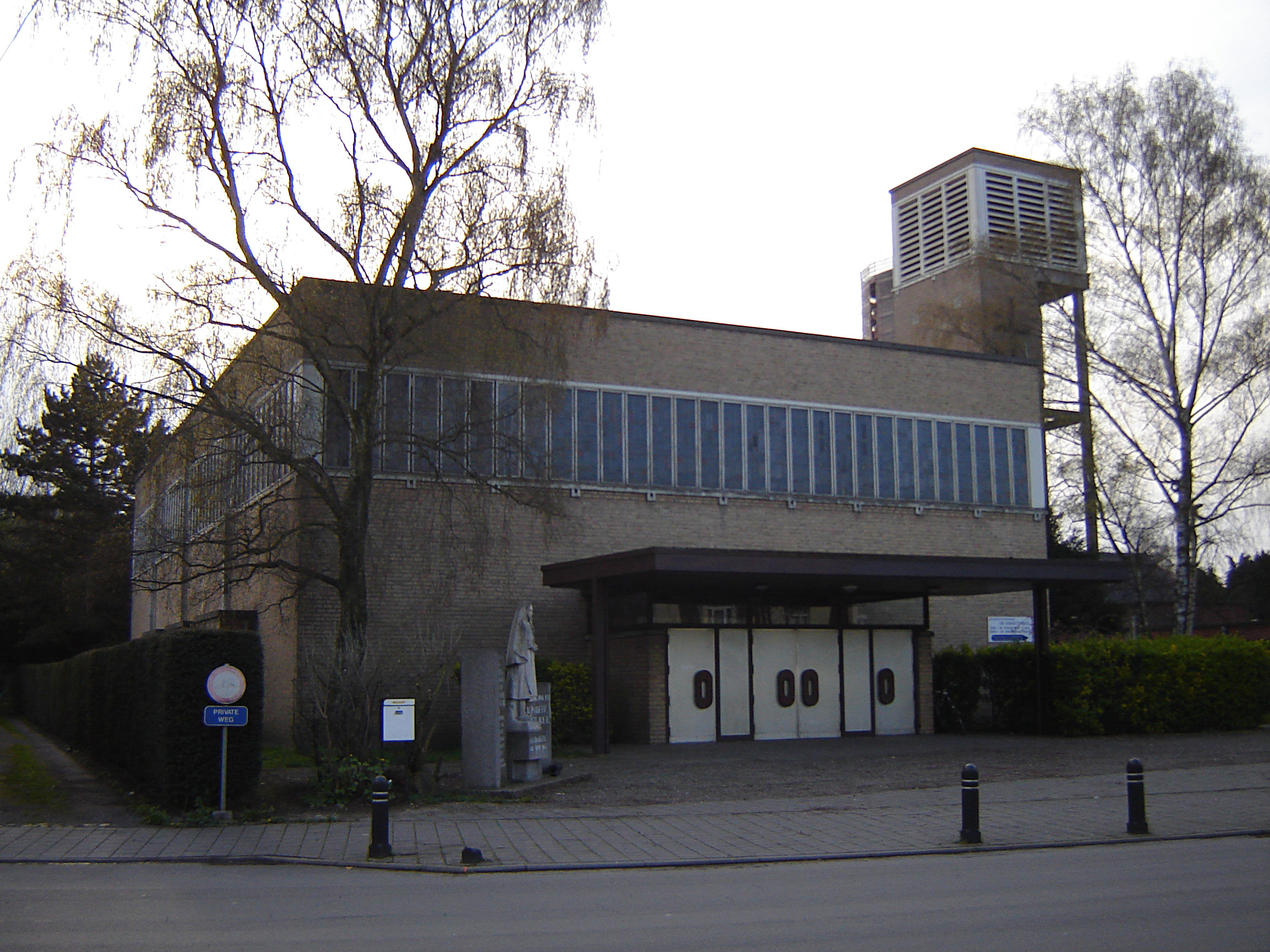 Church of Saint Bernadette in Sint-Amandsberg. Sint-Amandsberg, Gent, East Flanders, Belgium